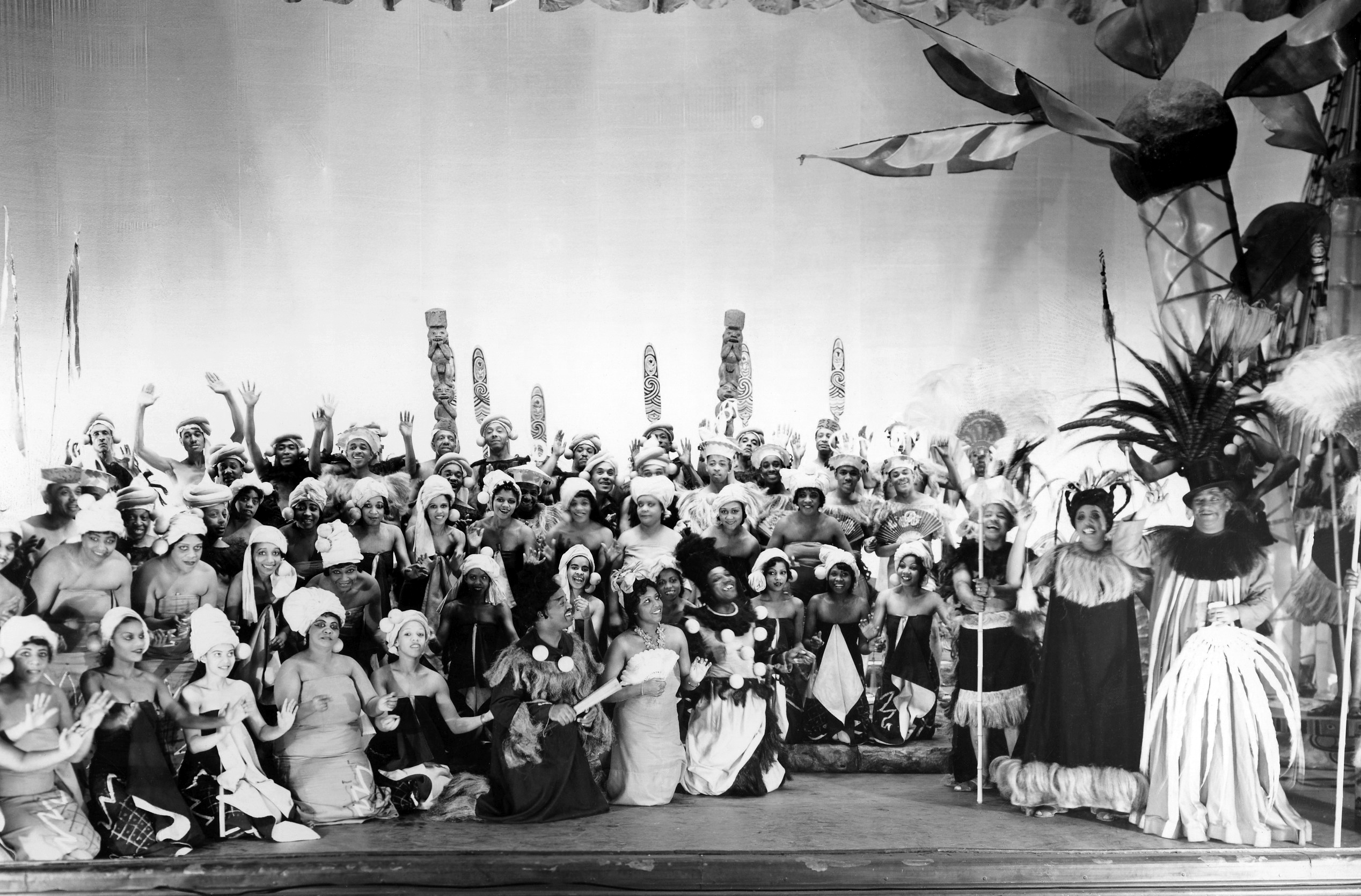 Cast photo of The Swing Mikado in Chicago. Federal Theatre Project photographs #C0205 Box 46, Folder 17